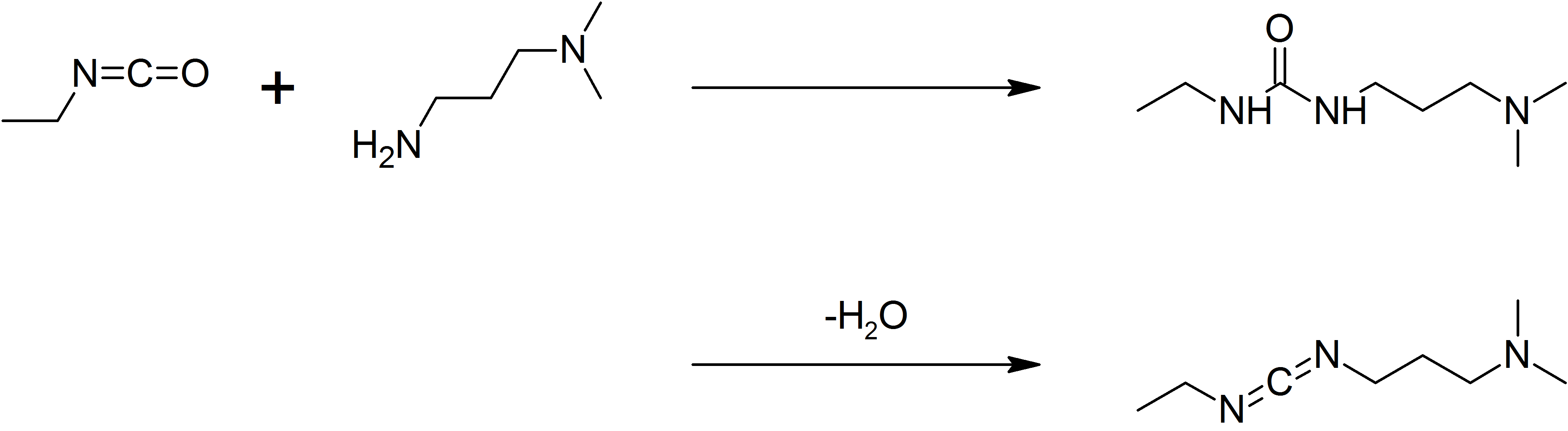 Synthesis of en:1-Ethyl-3-(3-dimethylaminopropyl)carbodiimide Sheehan, John; Cruickshank, Philip; Boshart, Gregory (1961). "A Convenient Synthesis of Water-Soluble Carbodiimides". J. Org. Chem. 26: 2525.